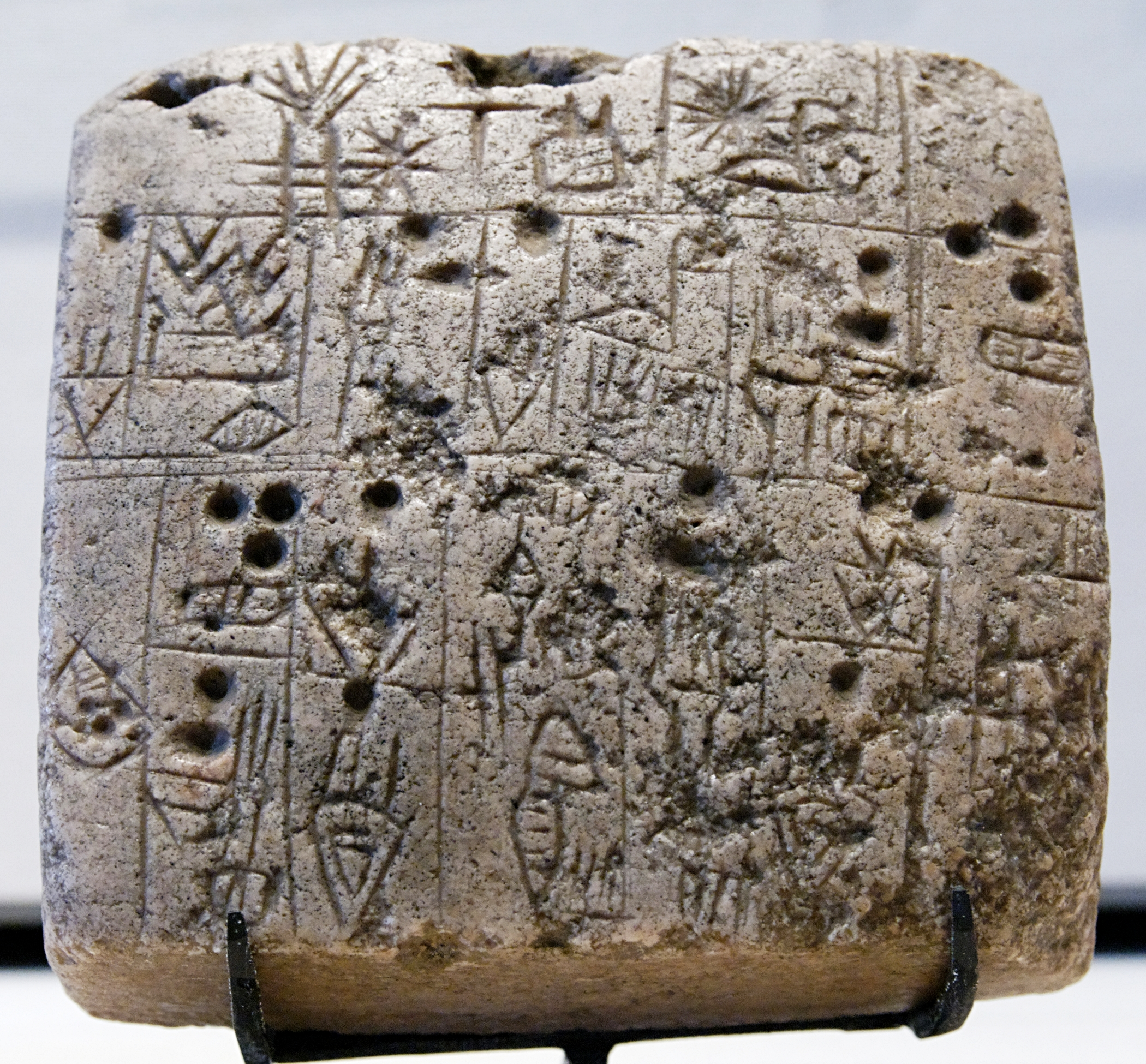 Land sales contract. Sumerian clay tablet, ca. 2600 BC.